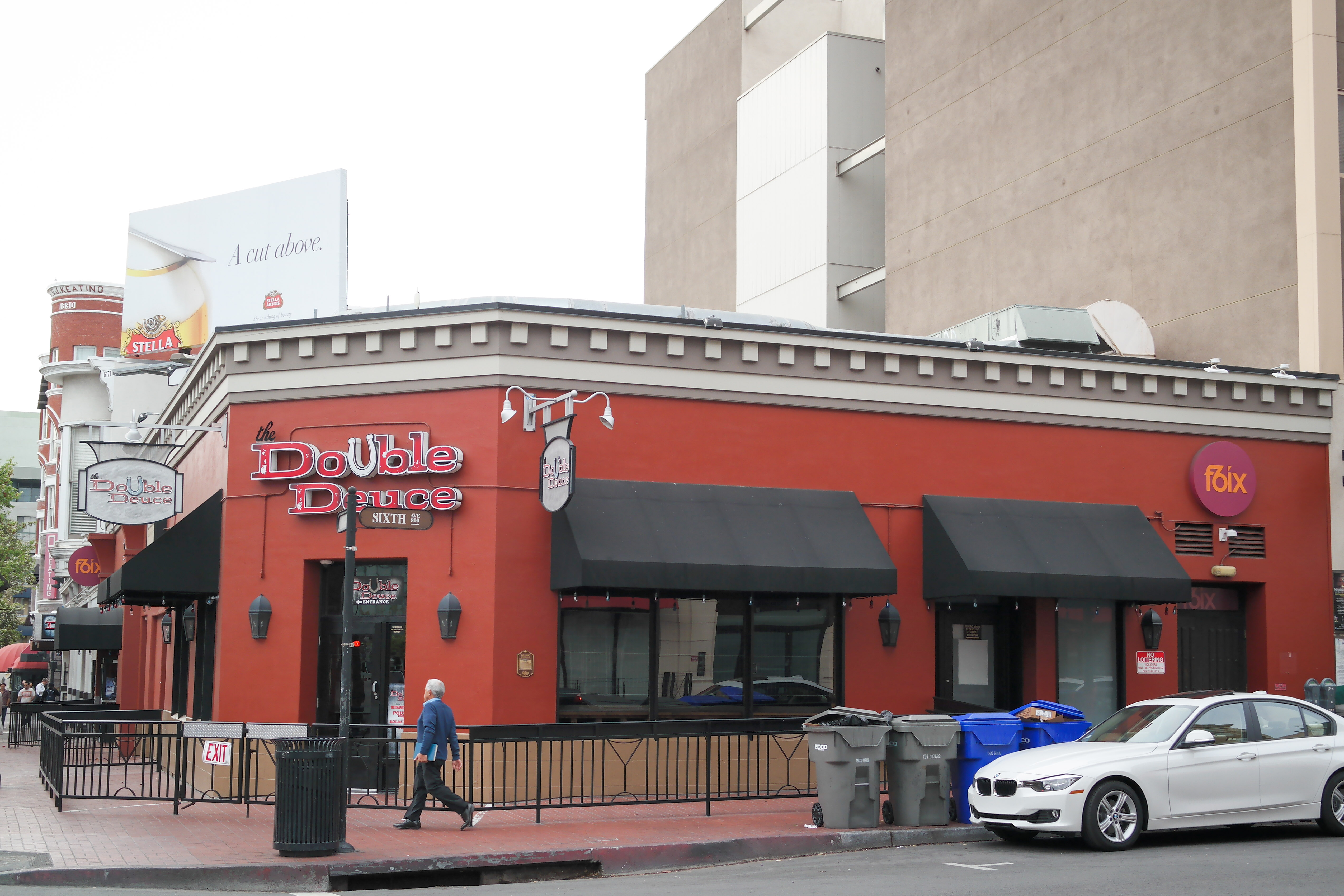 Historic Building Survey plaque: "74 Sheldon Block, 1888. This solid brick building was once four stories high with a basement. The first floor was for retail, while the upper floors were for offices and lodging. Unfortunately, the upper floors had to be removed because the structure was weakened when the upper floors of the adjoining building were removed. Little is known of the building's tenant history. Some of the businesses included an employment agency, a real-estate agency, and a second-hand furniture store."